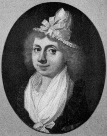 Portrait of Elisabeth Berenberg (1749-1822), heiress and co-owner of Berenberg Bank